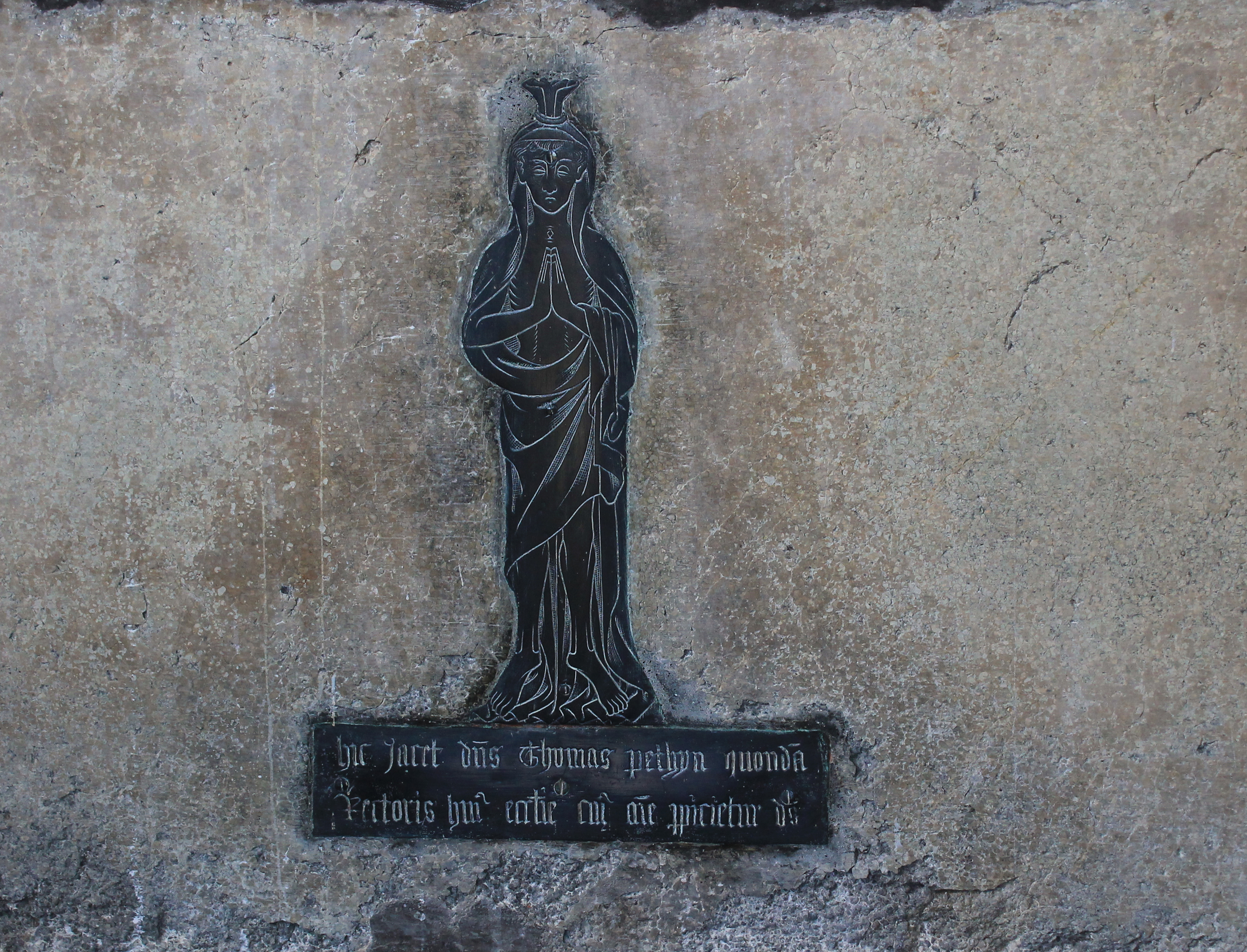 Brass monument from about 1475 in the chancel of St Mary the Virgin parish church, Lytchett Matravers, Dorset, to Thomas Pethyn, rector